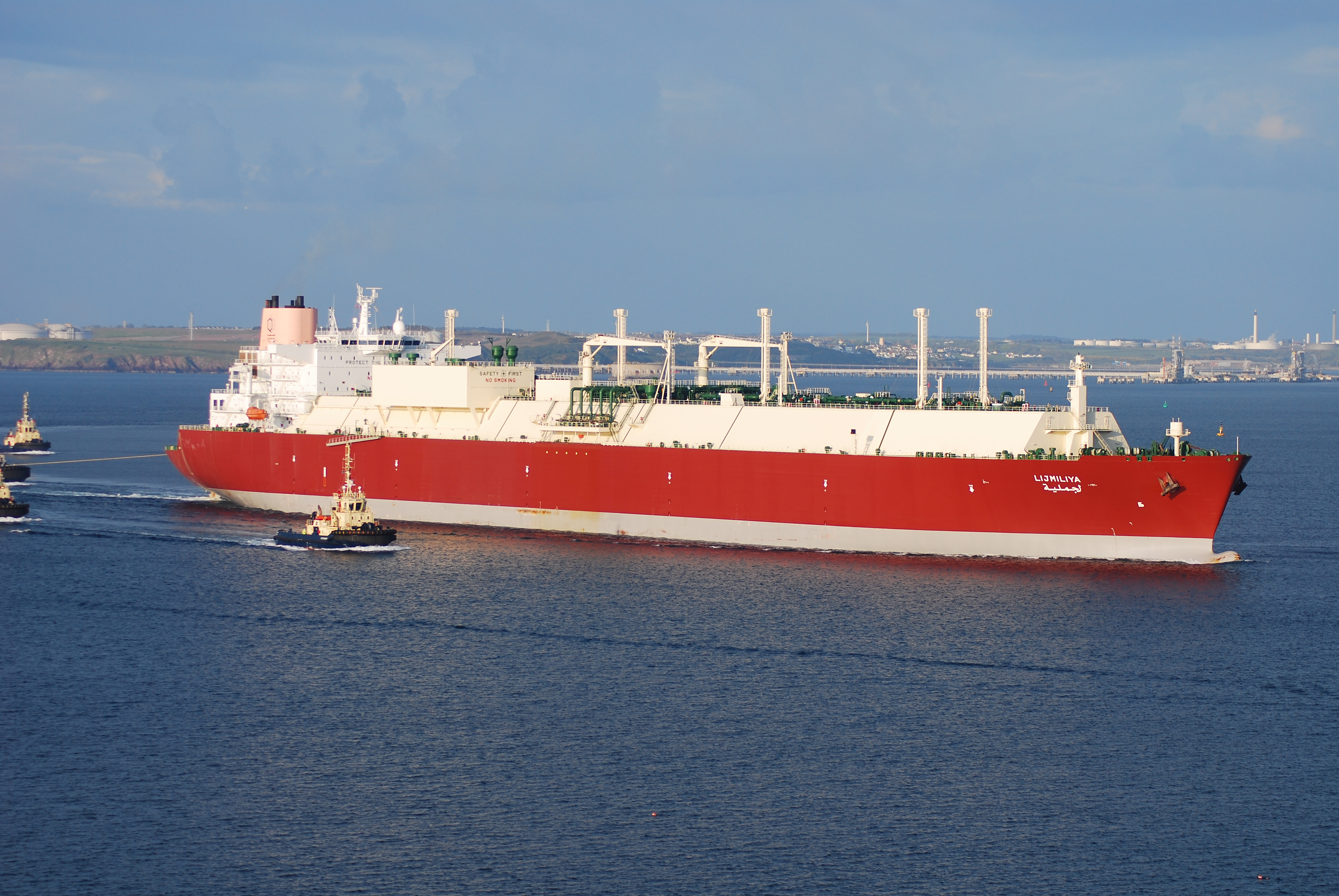 Name: Lijmiliya IMO: 9388819 Flag: Marshall Islands Vessel type: Lng Tanker Gross tonnage: 168,189 tons Length: 345 m Beam: 55 m Draught: 12 m Build year: 2009 Builder: Daewoo Shipbuilding & Marine Engineering, South Korea